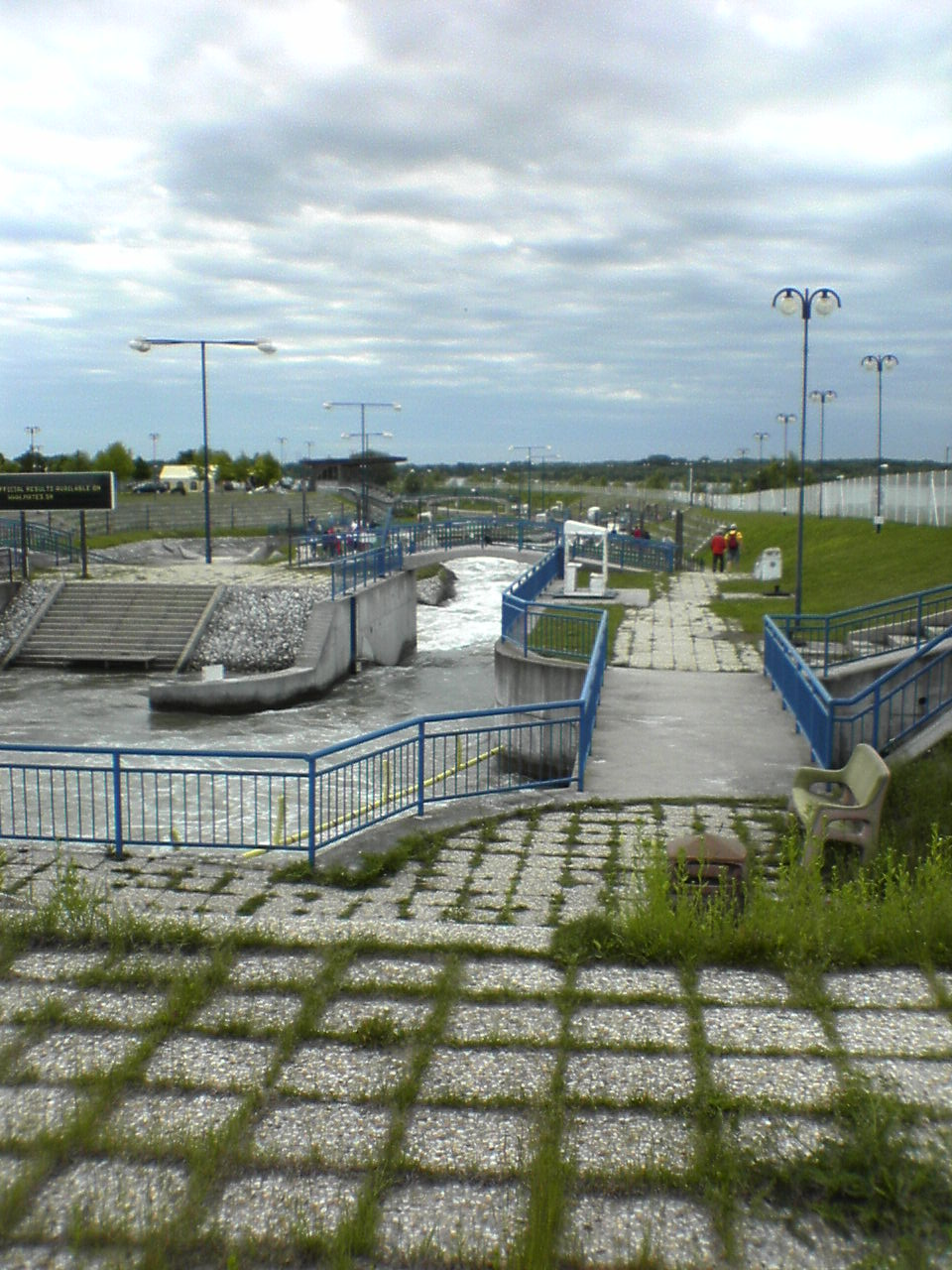 Gabčíkovo-areal of water sports